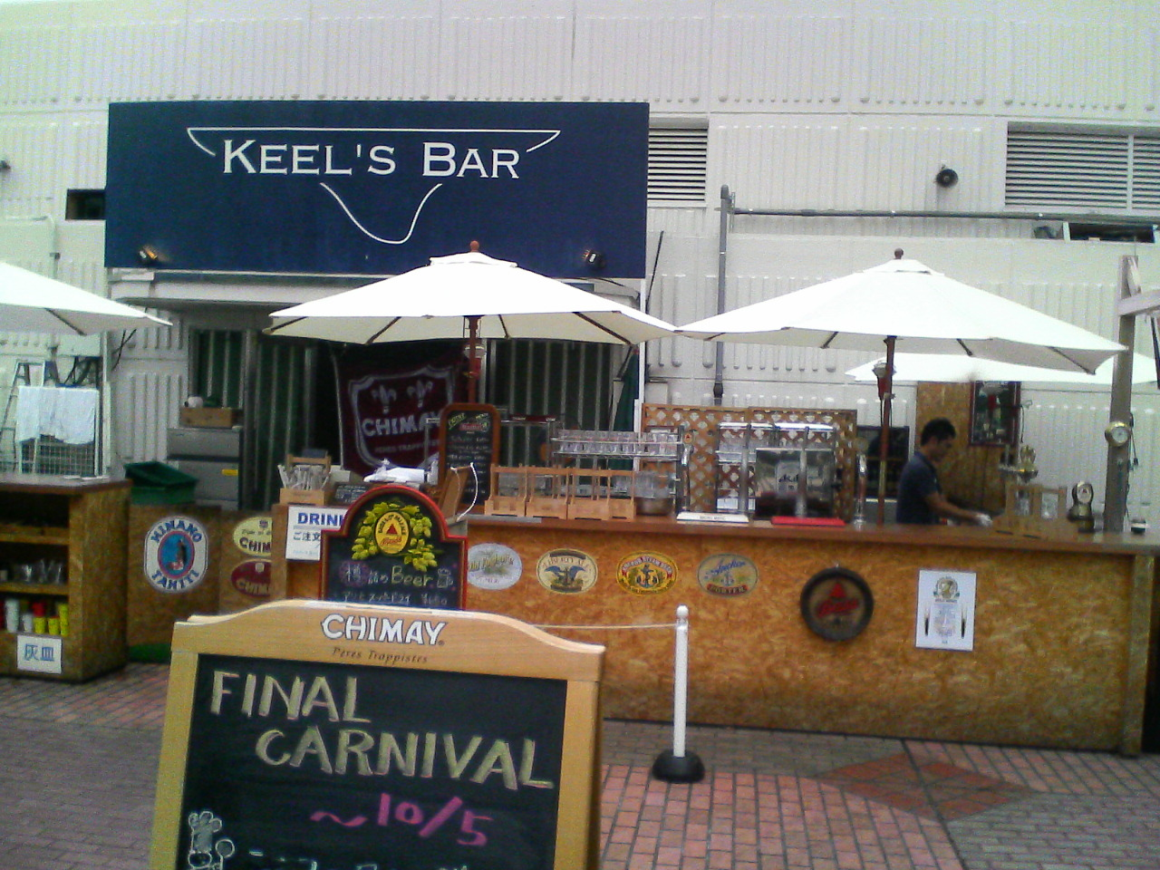 KEEL'S BAR Beer terrace in 2008